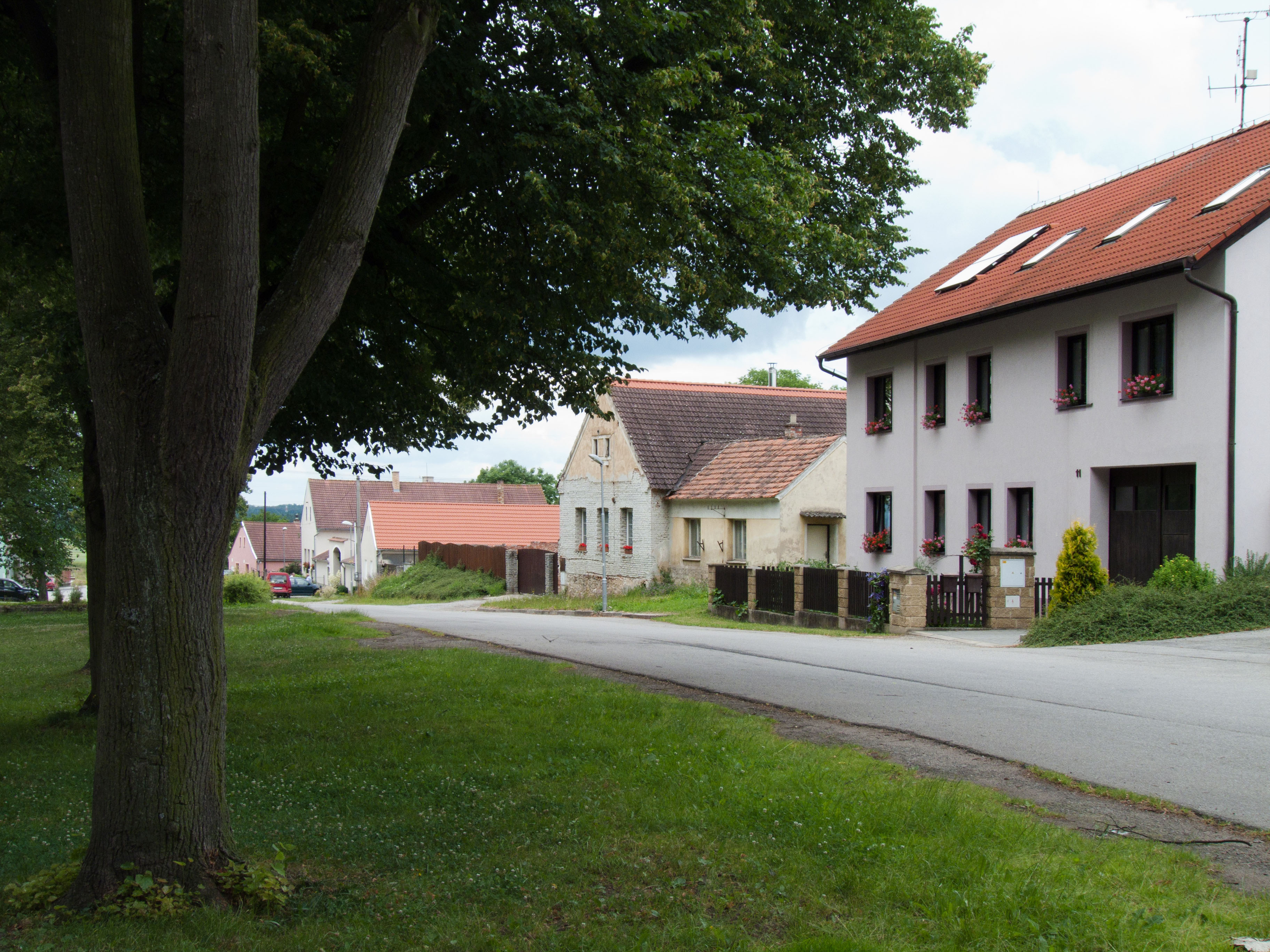 Village green in Libníč, České Budějovice District, Czech Republic. Česky: Náves v obci Libníč v okrese České Budějovice.